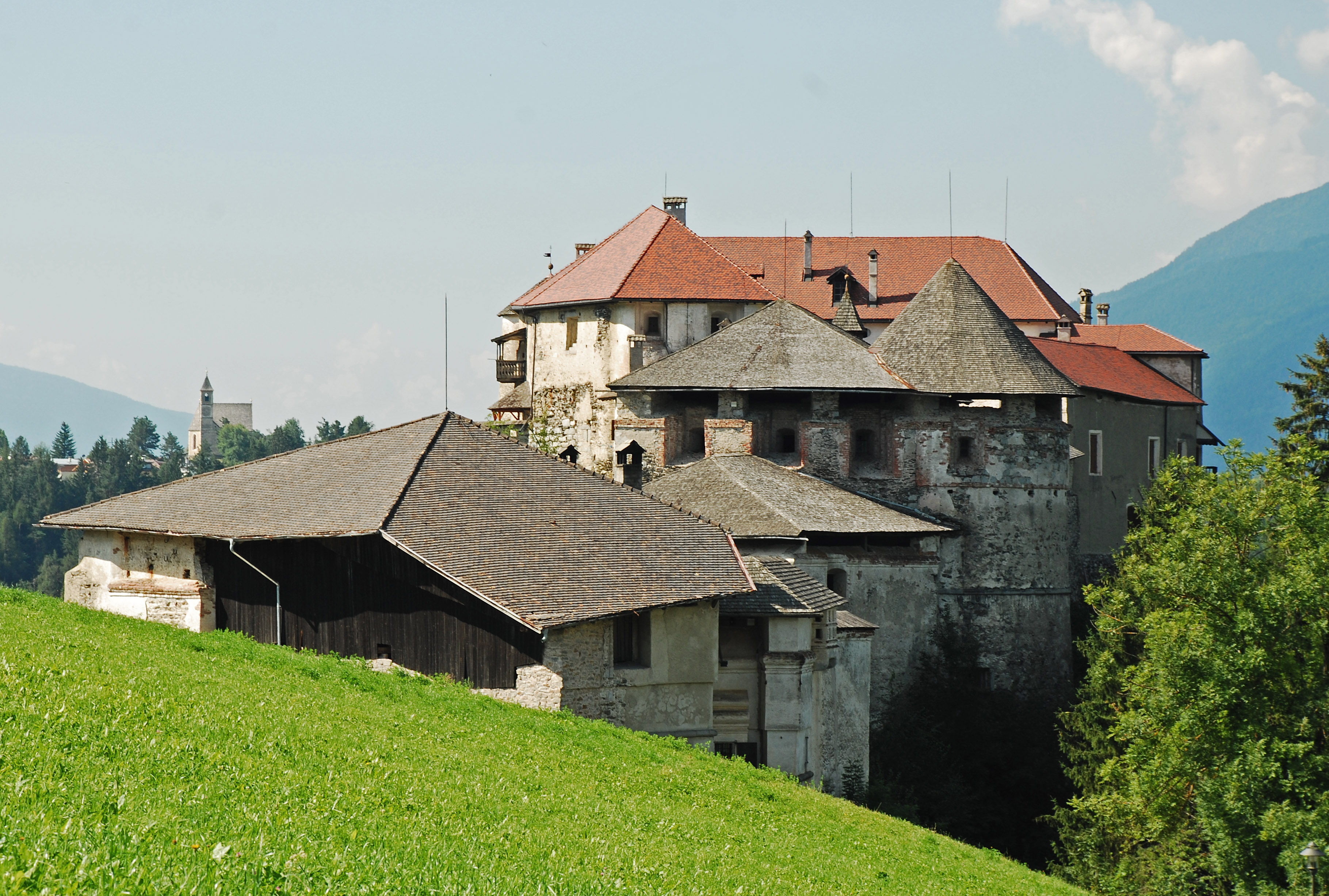 Rodenegg Castle